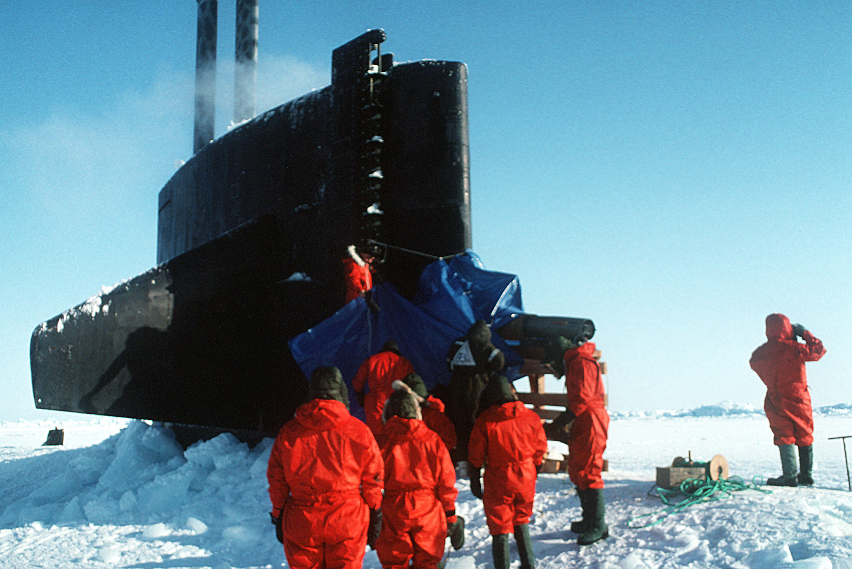 USS Pargo (SSN-650) surfaced in Arctic ice.